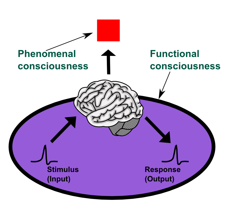 Phenomenal consciousness and functional consciousness, English version.